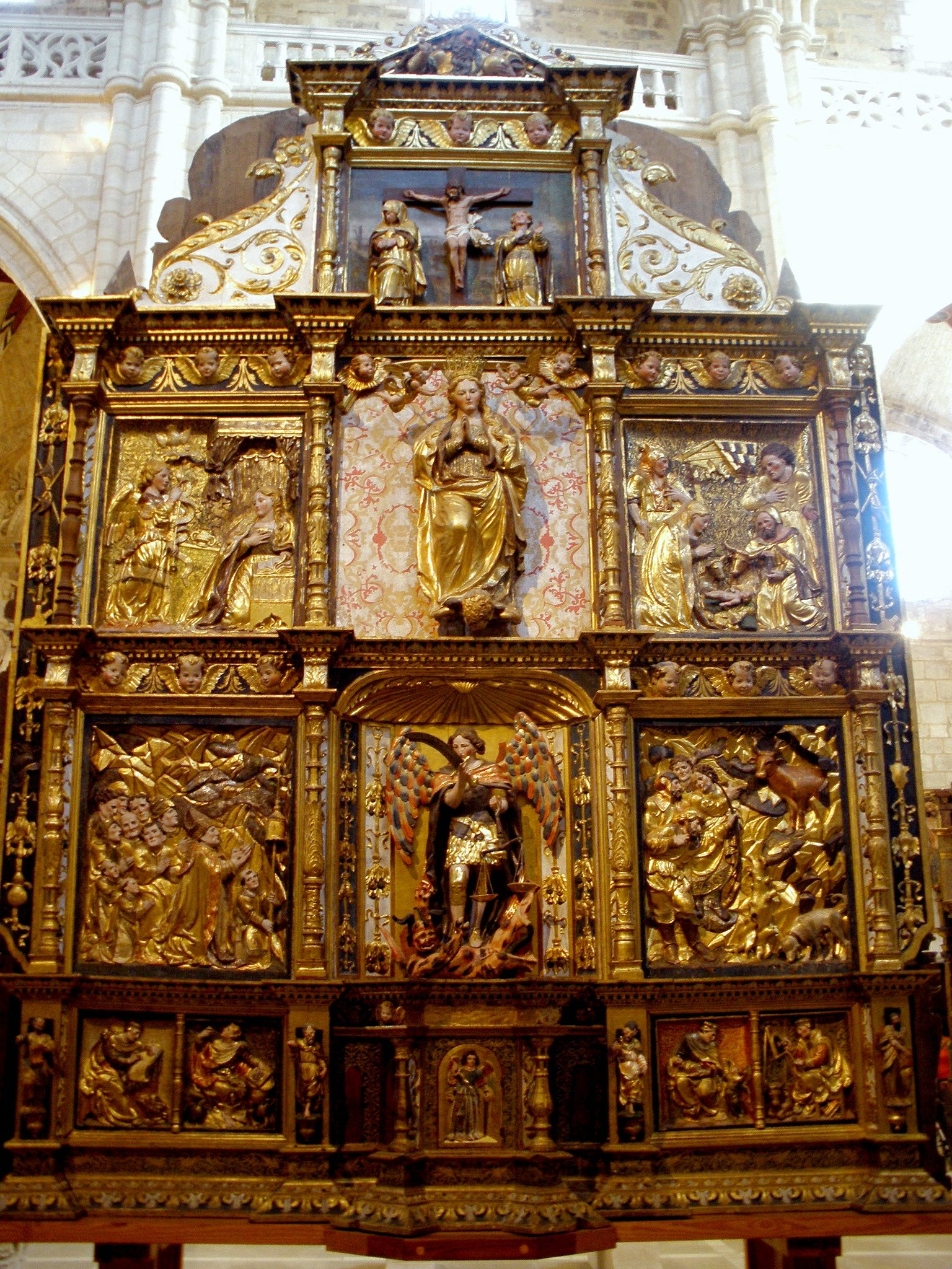 Retablo de San Miguel Arcángel (s-XVI), procedente de Cortiguera. En el Museo del Retablo/Iglesia de San Esteban, en Burgos (Castilla y León, España)